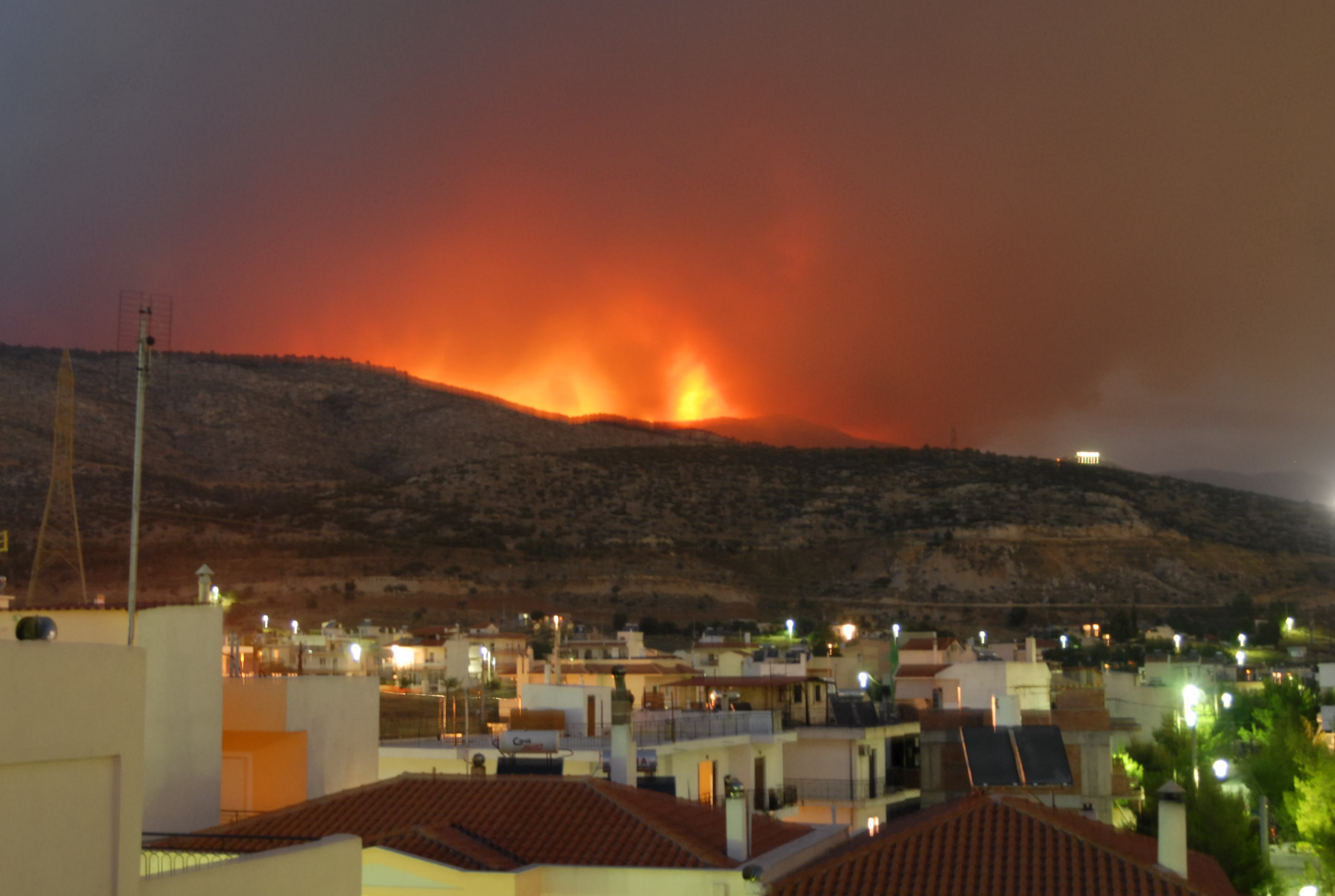 View of the 2007 Parnitha mountain forest fire from Ano Liosia, in Greece